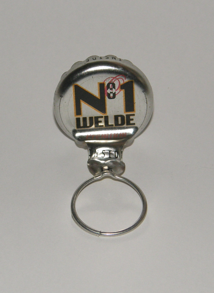 Bottle-opener with Zipp-Ring German -Beer-factory “WELDE” Weldebräu